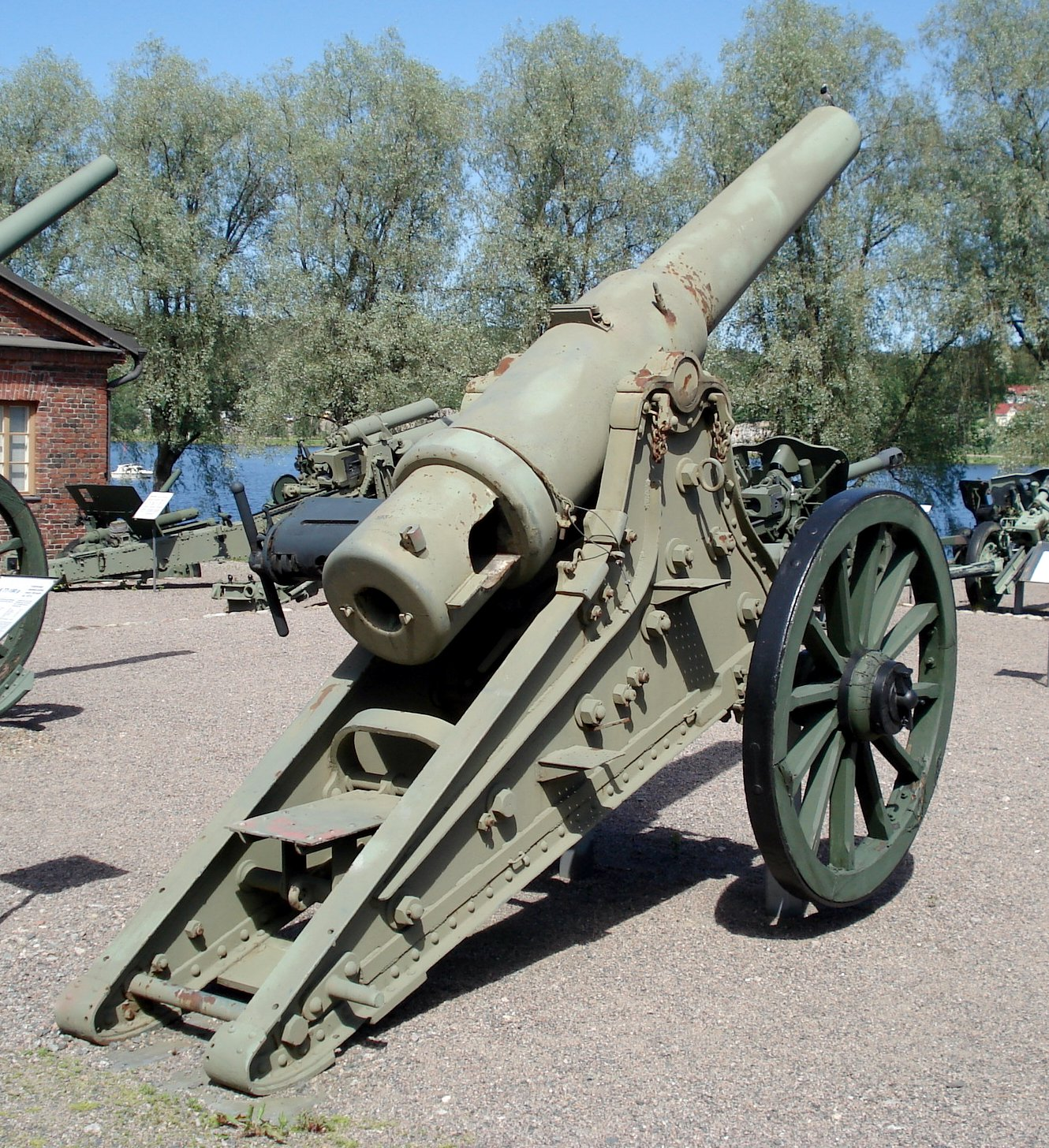 Russian 152,4 mm (6 inch) 190 pood M 1877 (6 inch siege gun M1877) fortification gun (осадная пушка), displayed in Hämeenlinna Artillery Museum. This gun was manufactured by Obukhov in 1881. Photo taken on June 18, 2006. Source: Photo by me, User:Balcer.